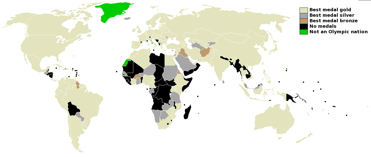 World map showing which nations have won Summer Olympic medals